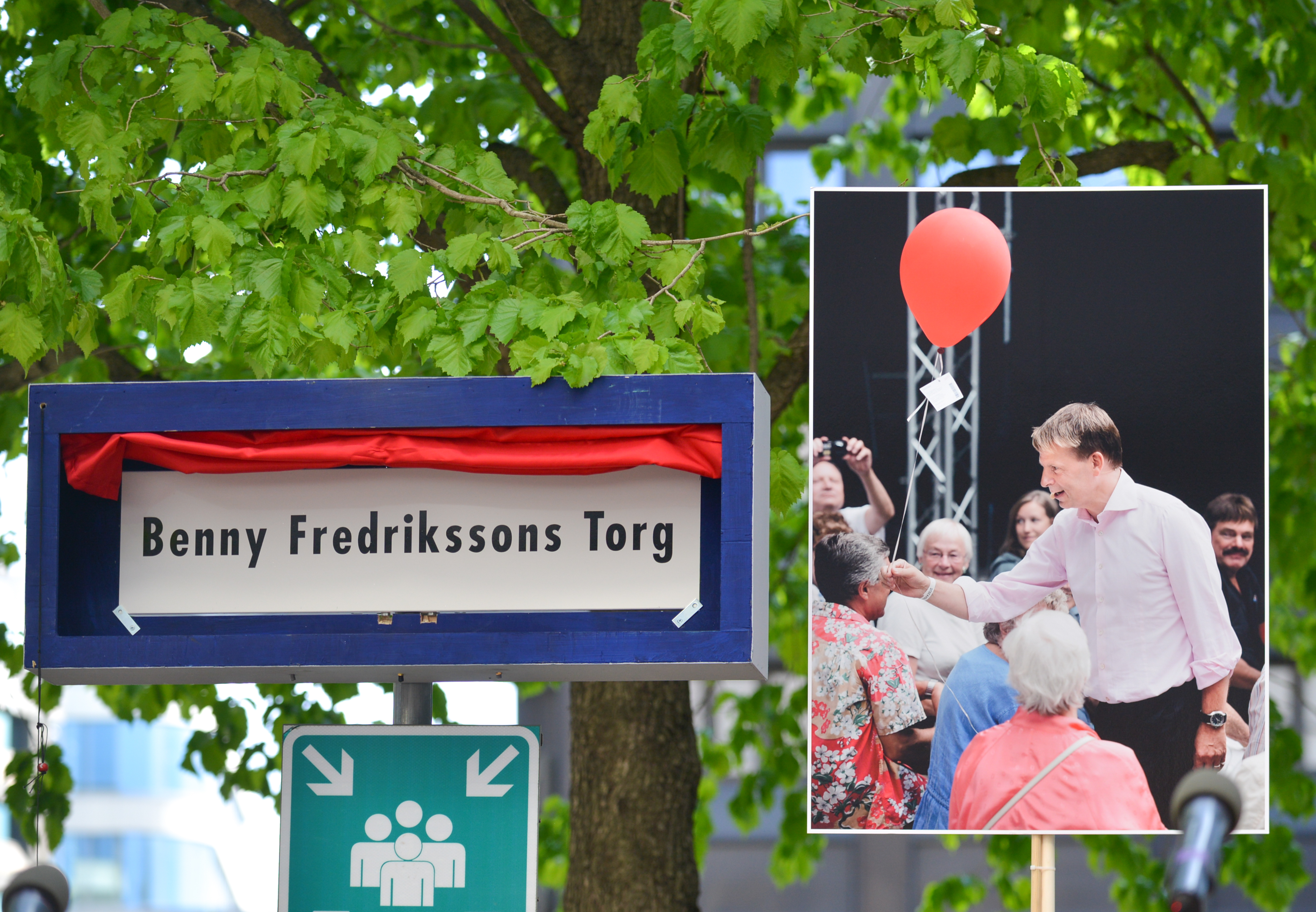 The inauguration Day of Benny Fredrikssons Torg on May 17, 2019.